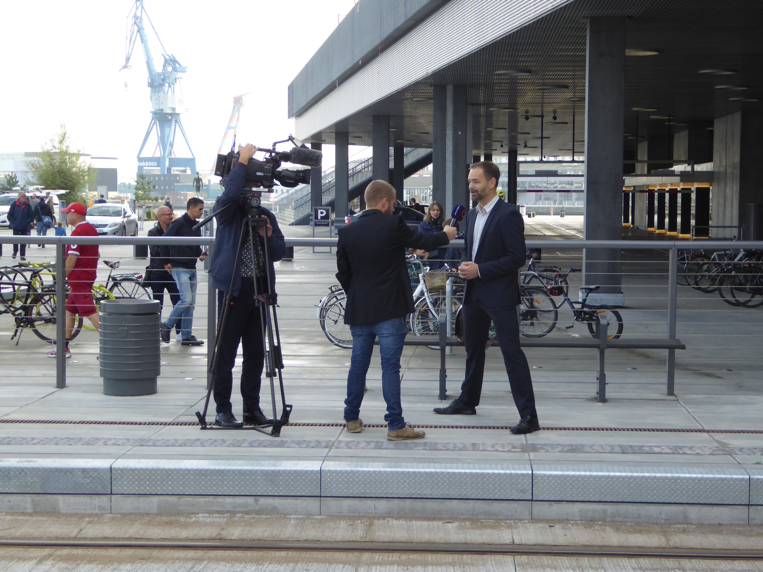 The grand opening of Aarhus Letbane was supposed to take place at 23 September 2017. It was however postponed the day the before, because the authorities would not accept the security. The mayor of Aarhus, Jacob Bundsgaard, is being interviewed by TV 2 Østjylland about the postponing.